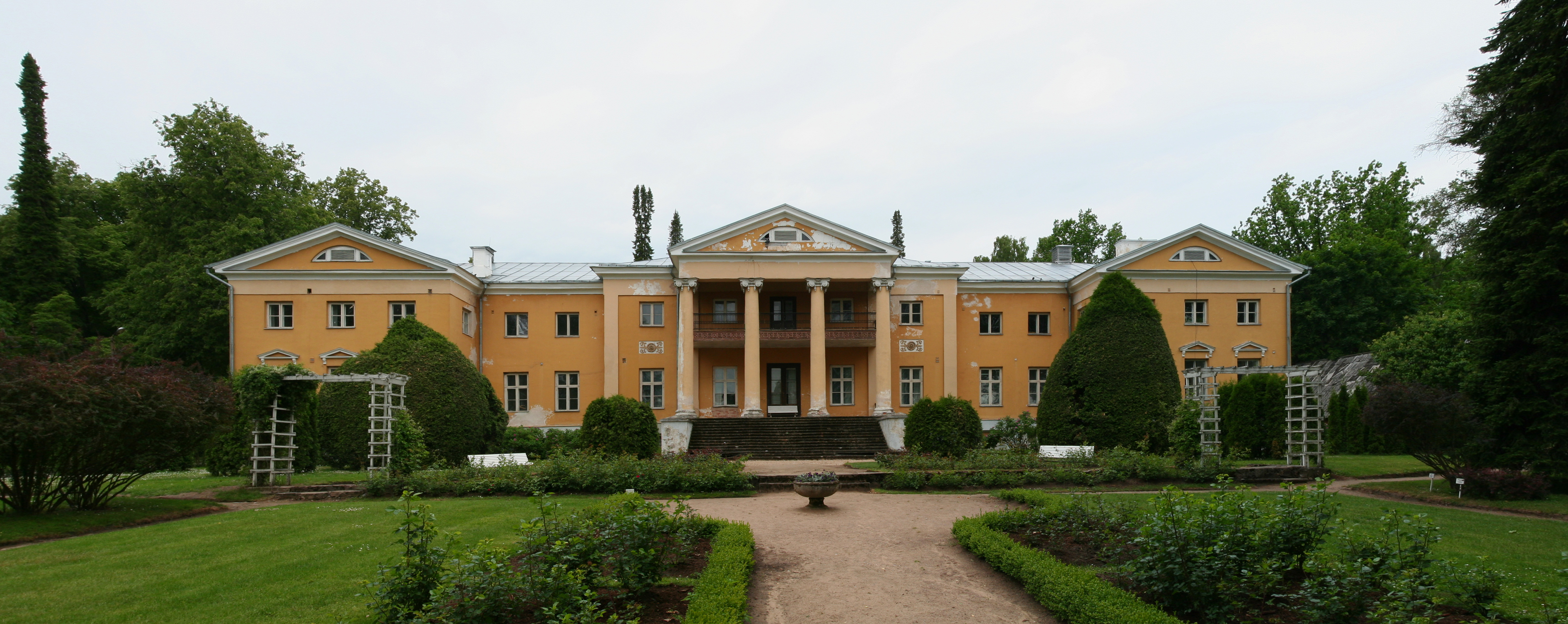 Sillapää castle in Räpina